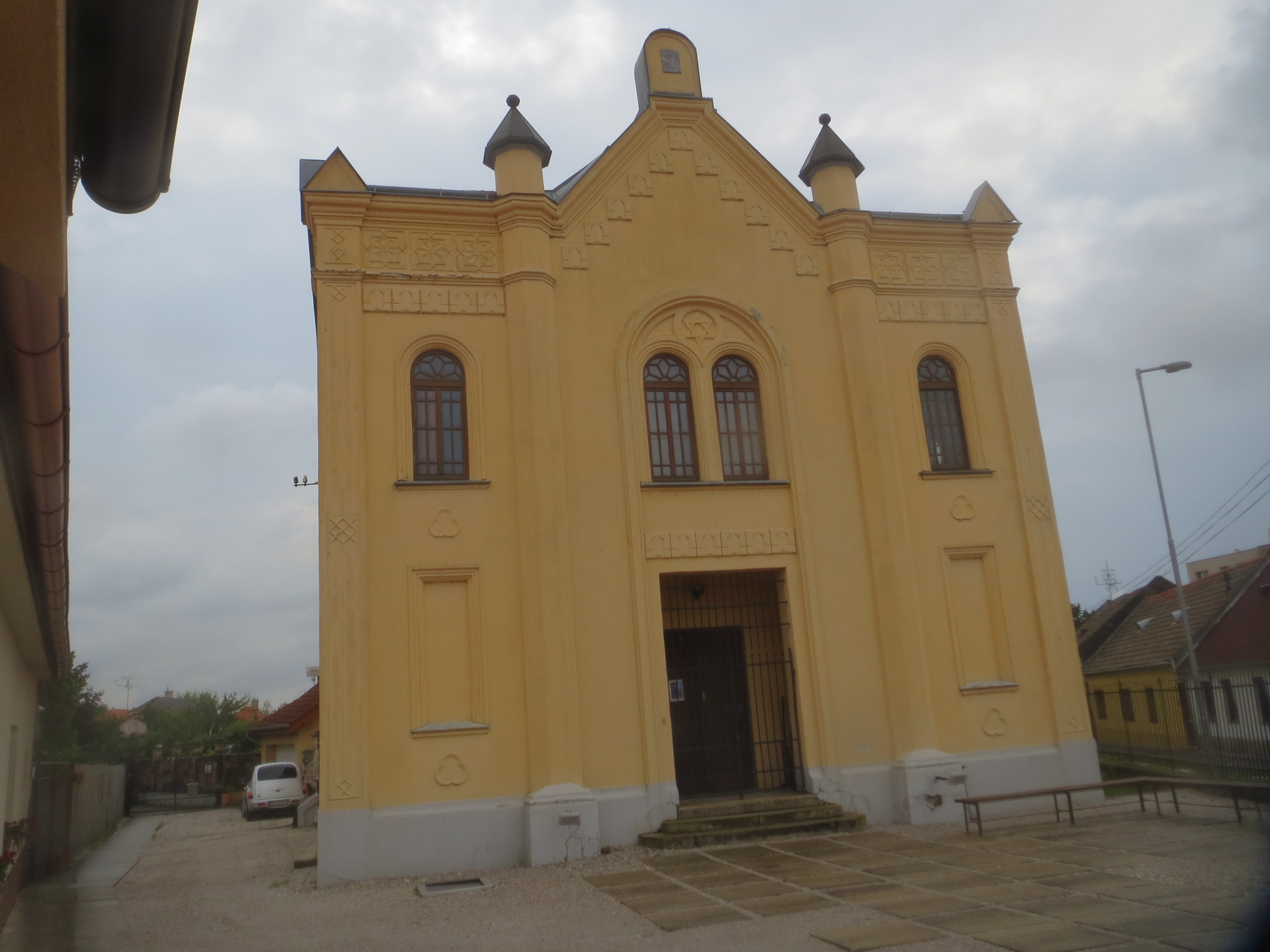 Synagogue in Šamorín - Front view